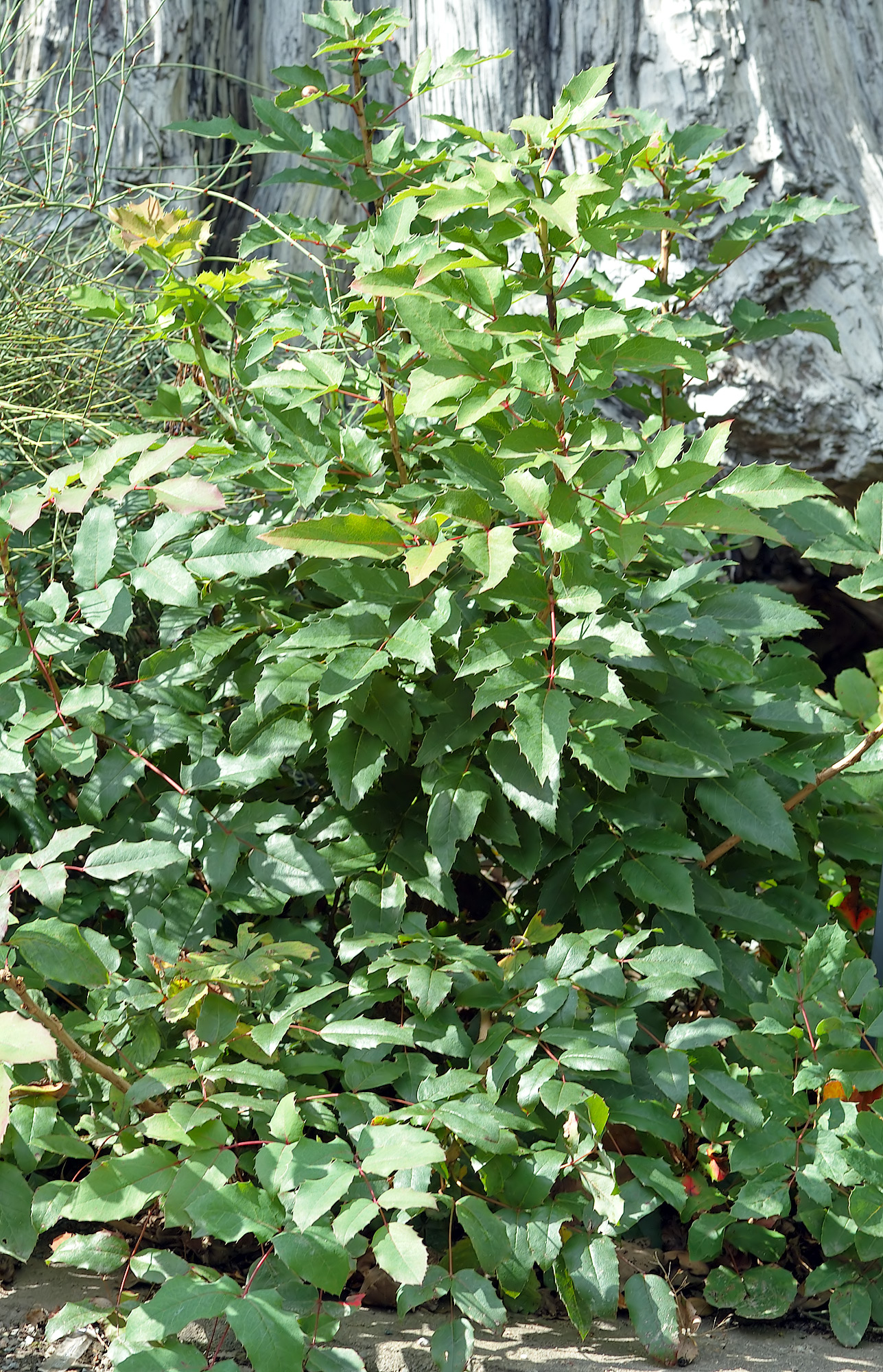 This image shows a few plants of the species "Creeping Mahonia" (Mahonia repens).